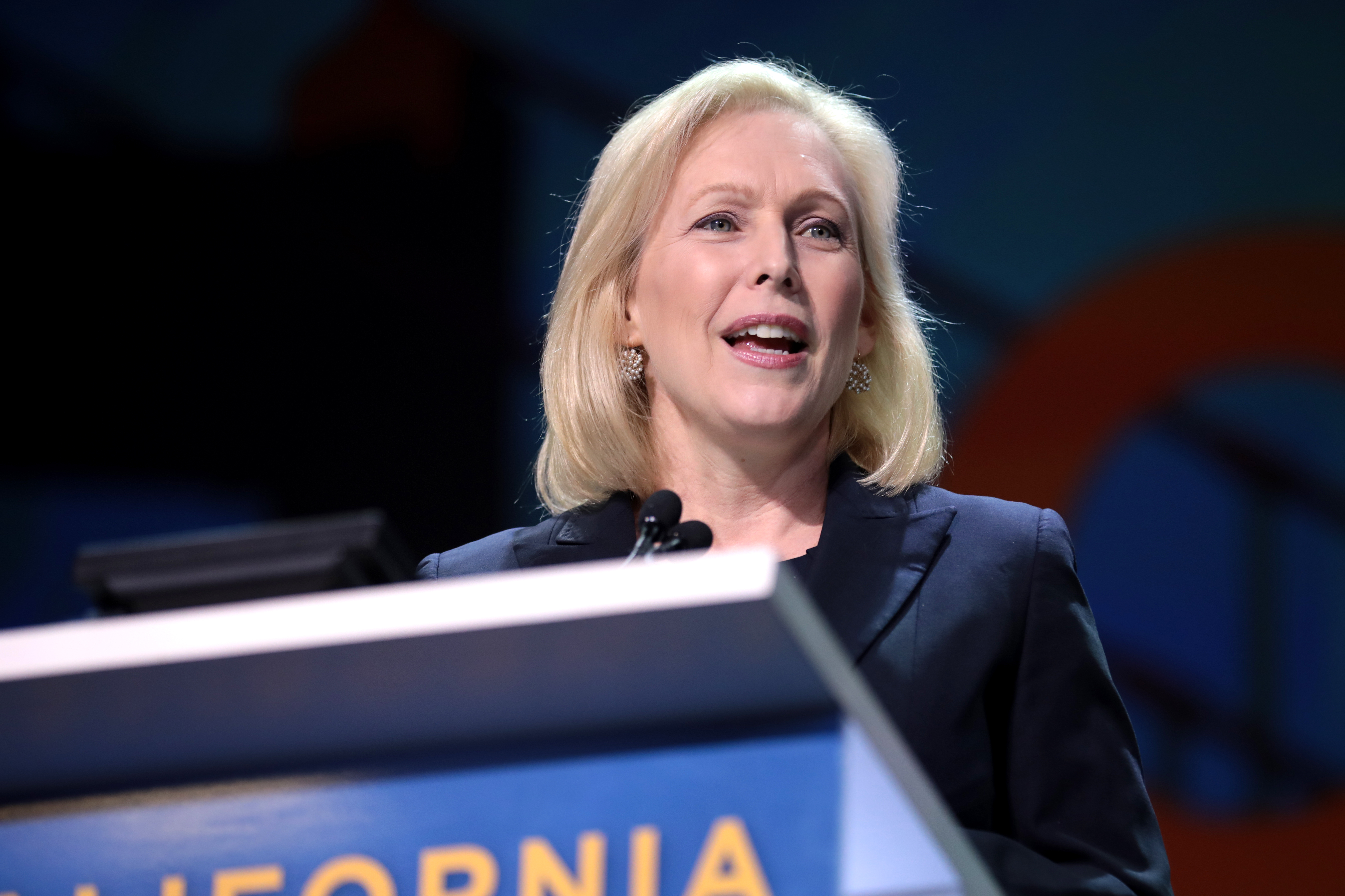 U.S. Senator Kirsten Gillibrand speaking with attendees at the 2019 California Democratic Party State Convention at the George R. Moscone Convention Center in San Francisco, California.